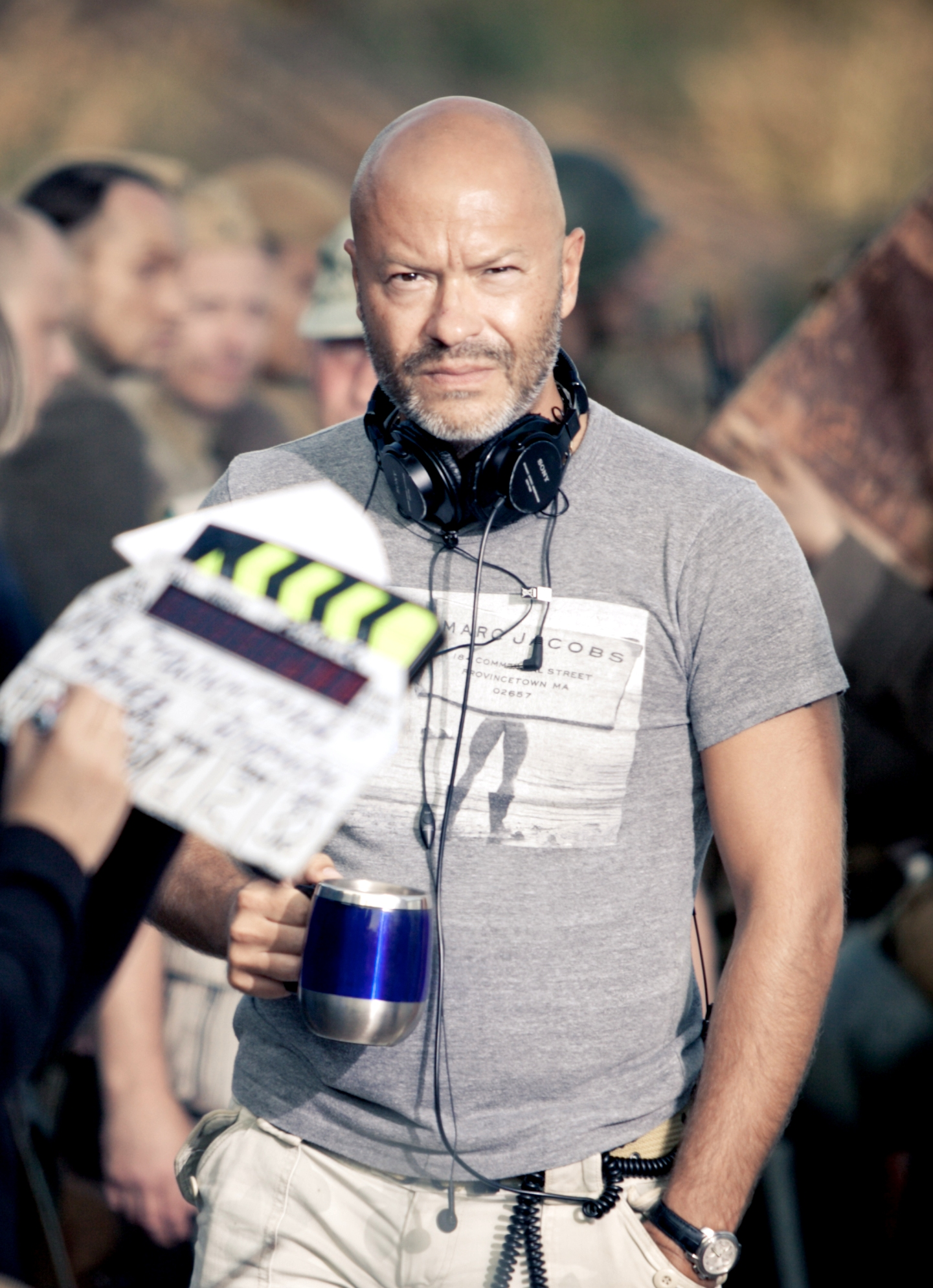 Fedor Bondarchuk on the filming of Stalingrad, 2011